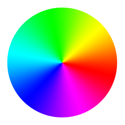 A cross section of HSL color space